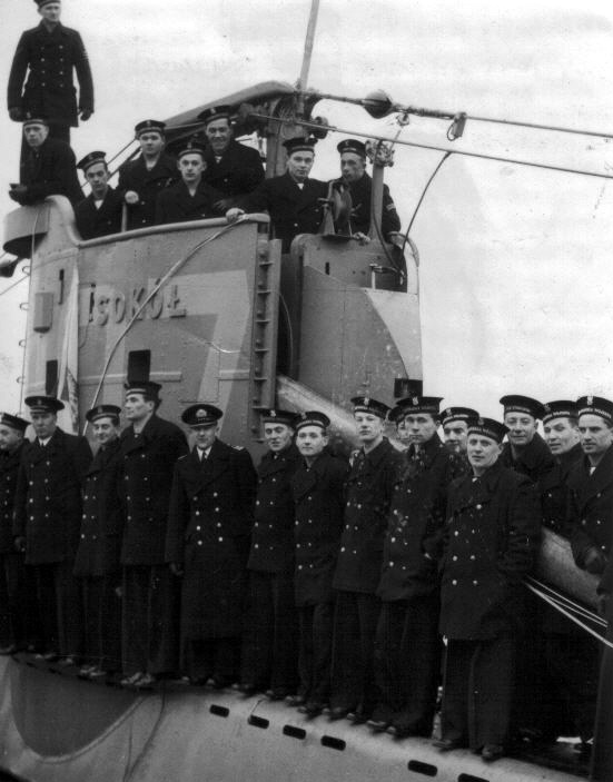 Polish Submarine ORP Sokół of WWII.